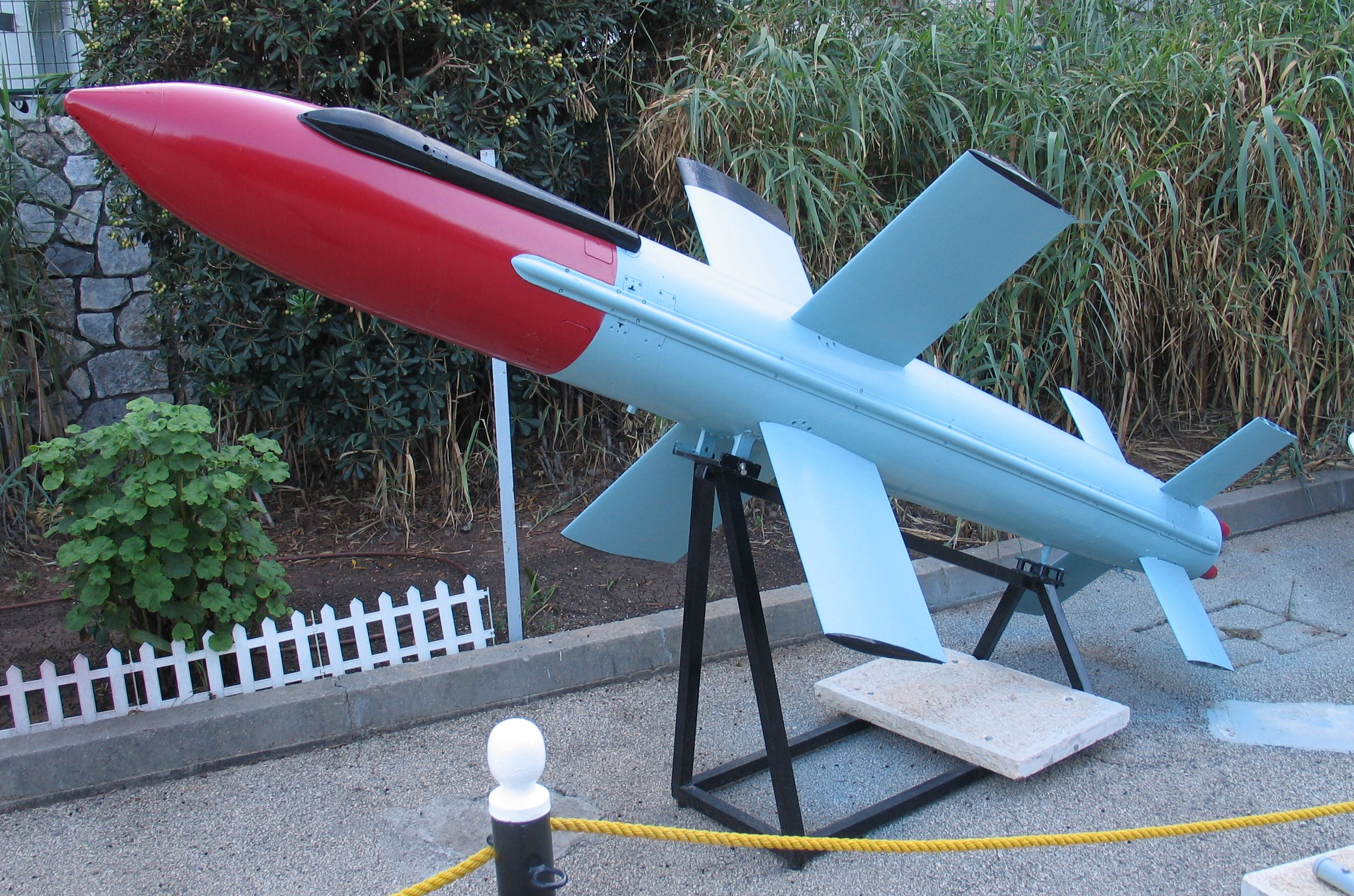 Israeli Gabriel anti-ship missile in the Clandestine Immigration and Naval Museum, Haifa, Israel.